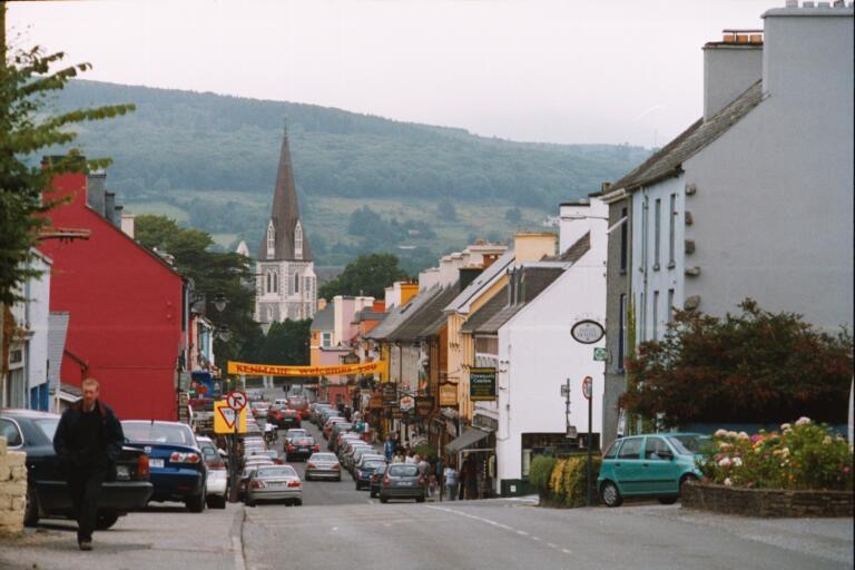 Kenmare town, County Kerry, Ireland. Picture by Lyndon Jones, used with permission Uploaded by User:Ali-oops, August 2005 As the original uploader, I have re-contacted the author, L. Jones, who has agreed to release these under a Public Domain license.